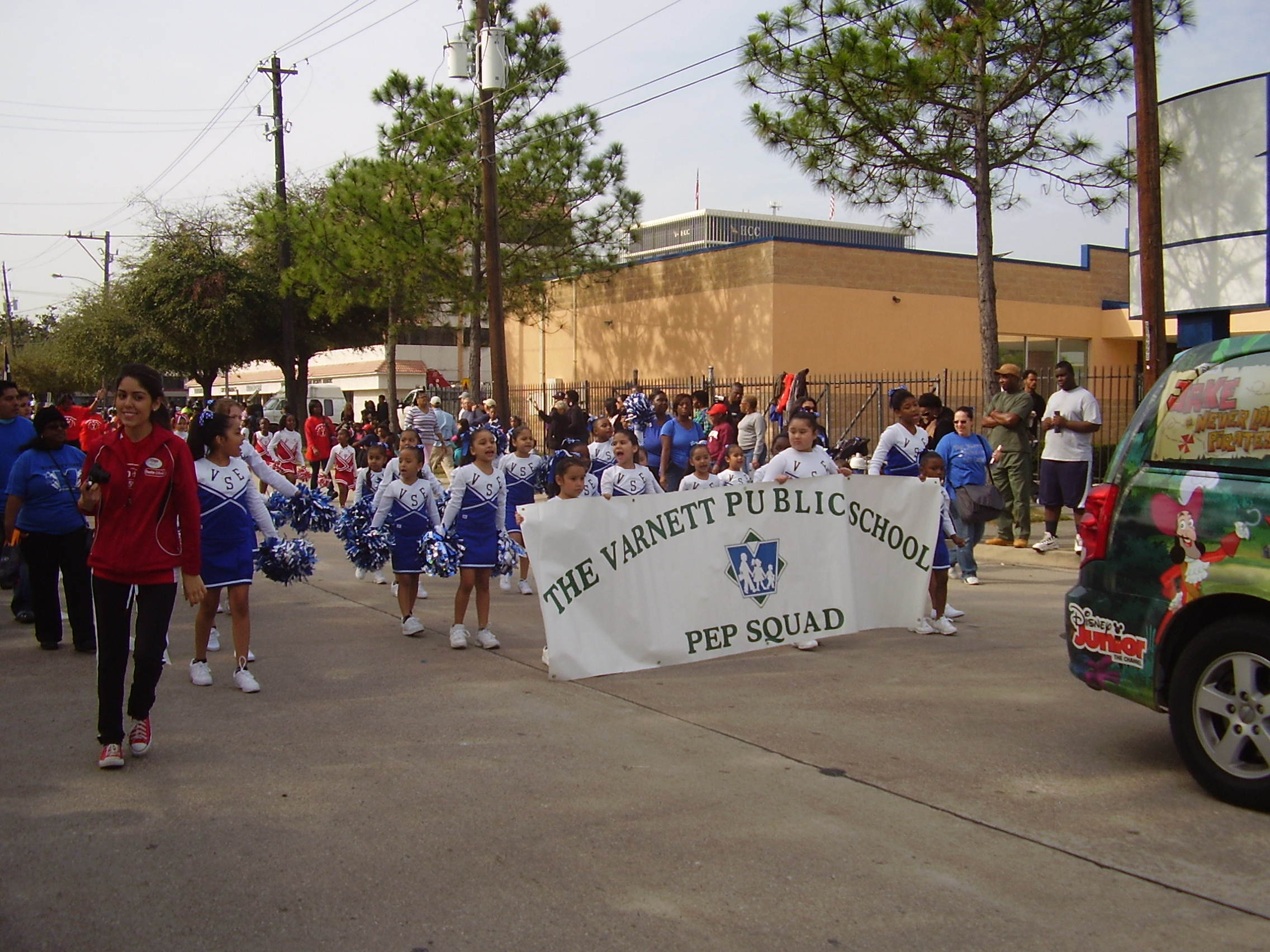 Varnett School parade during the 2013 MLK day parade